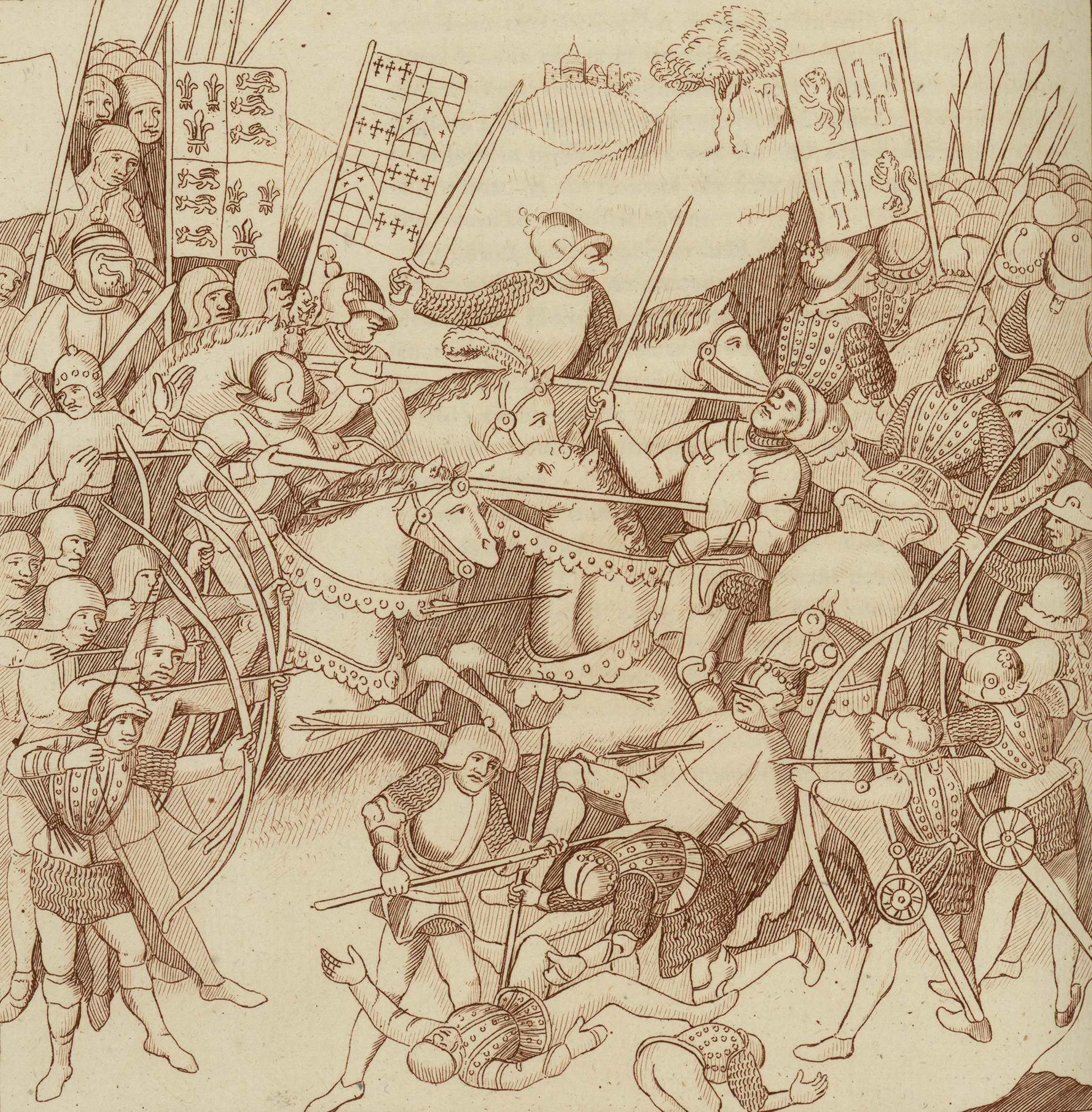 An image from a set of 8 extra-illustrated volumes of A tour in Wales by Thomas Pennant (1726-1798) that chronicle the three journeys he made through Wales between 1773 and 1776. These volumes are unique because they were compiled for Pennant's own library at Downing. This edition was produced in 1781. The volumes include a number of original drawings by Moses Griffiths, Ingleby and other well known artists of the period. Thomas Pennant (1726-1798)